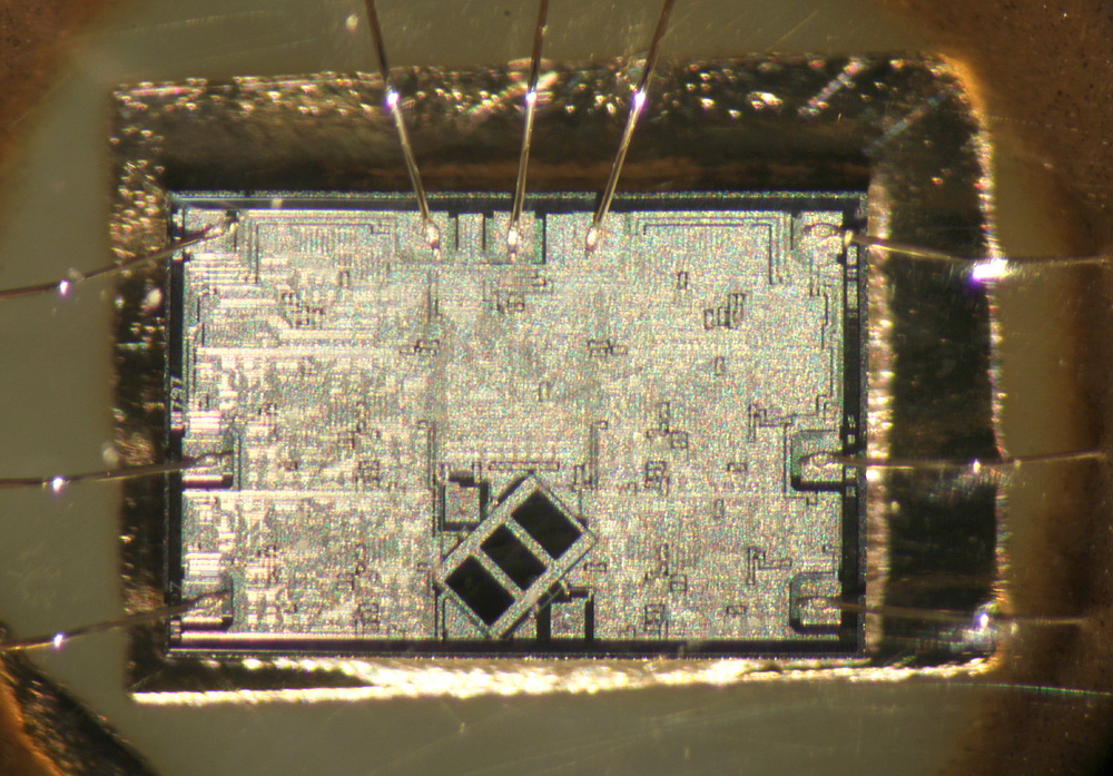 The optical sensor array extracted from the laser optical pickup of a CD player. The three dark rectangles are photosensors which read the data from the disk, senses beam focus and senses beam centering on the disc's optical track. Two tracking photosensors, each adjacent to the signal photosensor on the center, helps the optical servo system to keep the laser beam on track.